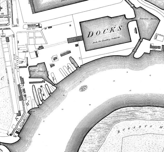 Crop from Richard Horwood's 1790s map of London show parts of the East India Docks, the River Thames, and the Greenwich Peninsula